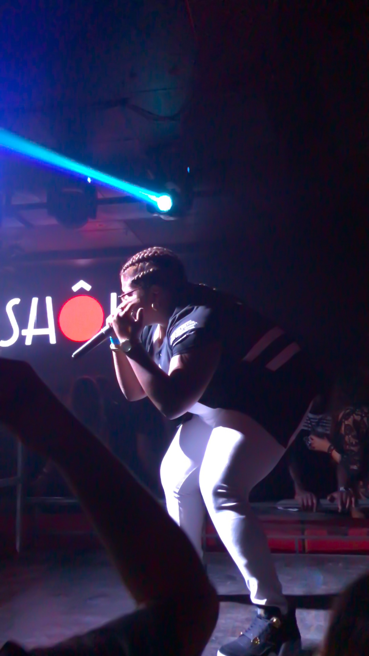 Walkiria Espino performing in Barcelona in 2017